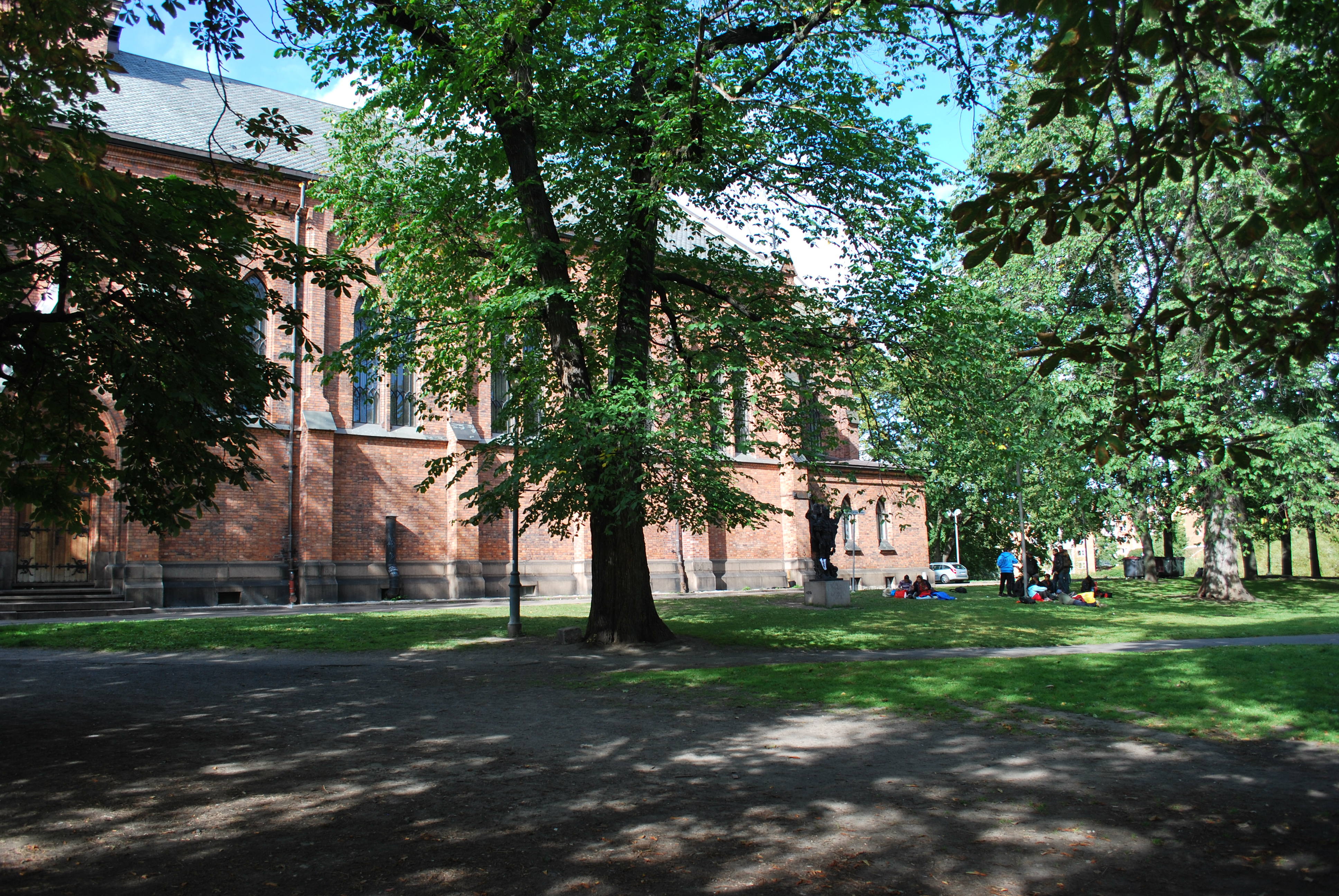 Ingrid Bjerkås plass (square), close to Jakob kirke (church) and Torggata, Hausmannsområdet, Oslo.